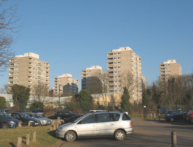 Tunworth estate, Roehampton, London . Some of the many high-rise blocks which are part of the large Alton Estate in Roehampton south west London. Viewed from the west.